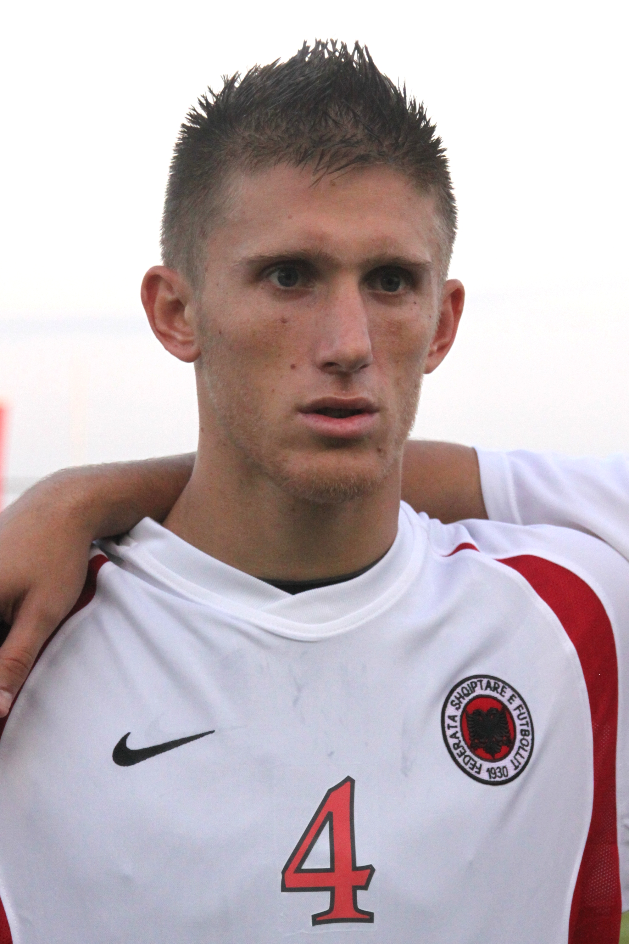 Klodian Semina (KS Gramozi Ersekë) - Albania national under-21 football team (1)